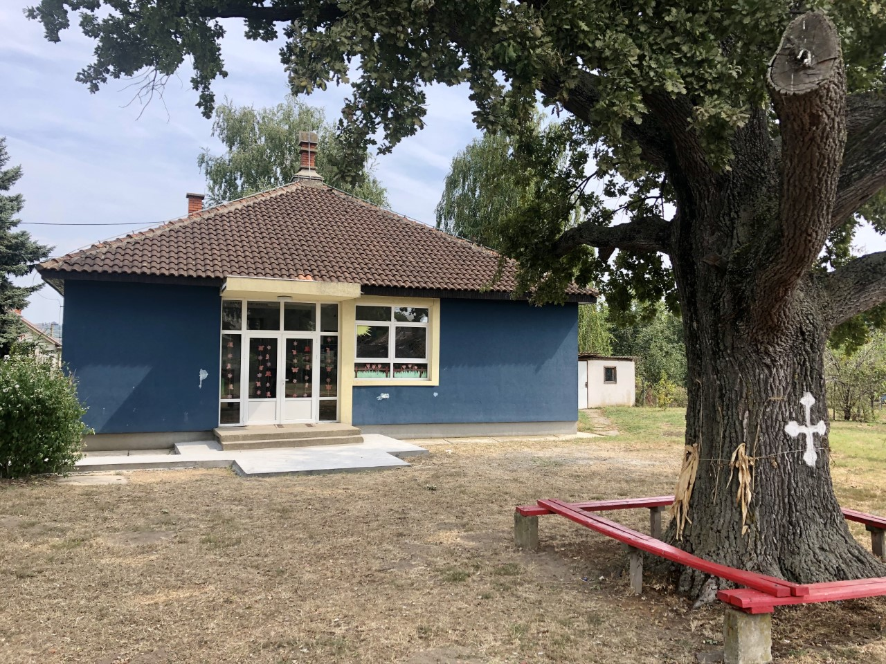 Primary school "Sveti Sava" Milatovac